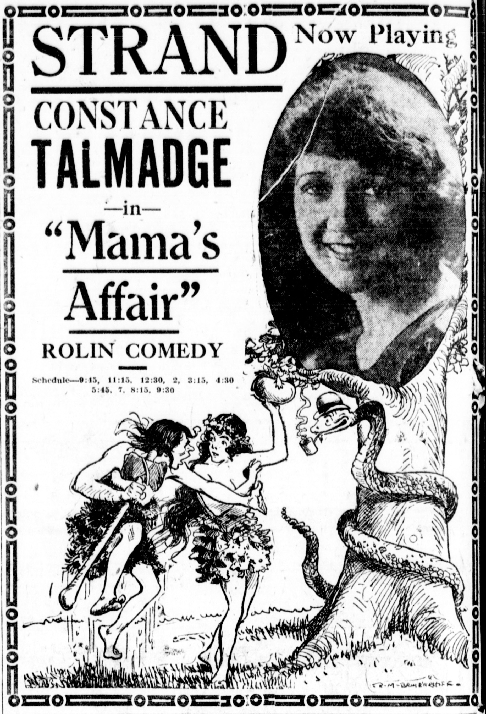 Mama's Affair is a 1921 silent film directed by Victor Fleming, based on the play of the same title by Rachel Barton Butler. This is an advertisement from a newspaper. The ad promotes the Adam and Eve prologue of the film.